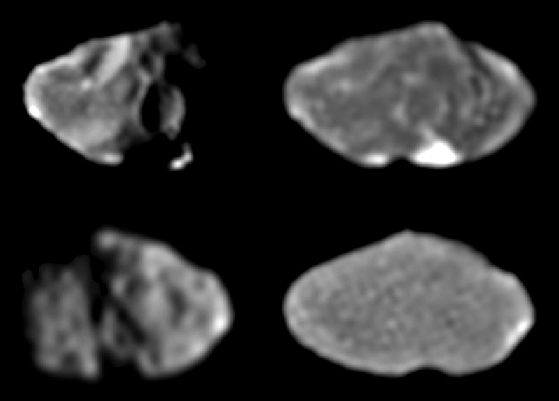 These four images of Jupiter's moon, Amalthea, were taken by Galileo's solid state imaging system at various times between February and June 1997. North is approximately up in all cases. Amalthea, whose longest dimension is approximately 247 kilometers (154 miles) across, is tidally locked so that the same side of the satellite always points towards Jupiter, similar to how the nearside of our own Moon always points toward Earth. In such a tidally locked state, one side of Amalthea always points in the direction in which Amalthea moves as it orbits about Jupiter. This is called the "leading side" of the moon and is shown in the top two images. The opposite side of Amalthea, the "trailing side," is shown in the bottom pair of images. The Sun illuminates the surface from the left in the top left image and from the right in the bottom left image. Such lighting geometries, similar to taking a picture from a high altitude at sunrise or sunset, are excellent for viewing the topography of the satellite's surface such as impact craters and hills. In the two images on the right, however, the Sun is almost directly behind the spacecraft. This latter geometry, similar to taking a picture from a high altitude at noon, washes out topographic features and emphasizes Amalthea's albedo (light/dark) patterns. It emphasizes the presence of surface materials that are intrinsically brighter or darker than their surroundings. The bright albedo spot that dominates the top right image is located inside a large south polar crater named Gaea.